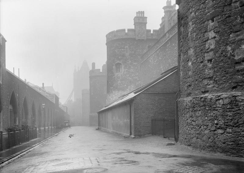 Eastern part of the Outer Ward of the Tower of London between Martin and Constable Towers, showing the rifle range on the right hand side